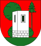 Coat of arms of Czech municipality Strážný